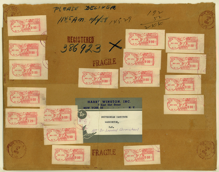 The Hope Diamond was placed in a box, wrapped in brown paper, and sent by registered mail, traveling down from New York in a Railway Post Office train car. In Washington, it was immediately taken to the City Post Office (the building that now houses the National Postal Museum), where it was picked up by postal carrier James G. Todd.